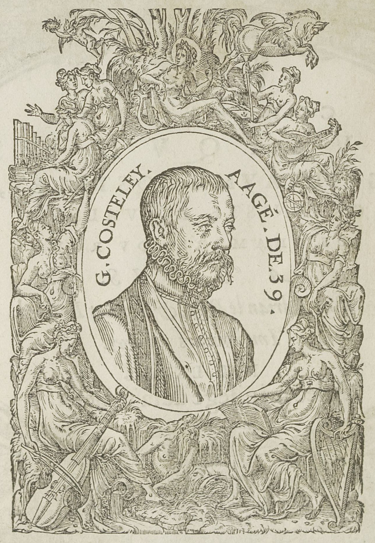 Portrait of French Renaissance composer Guillaume Costeley (ca 1530-1606), aged 39, from La Musique (1570)